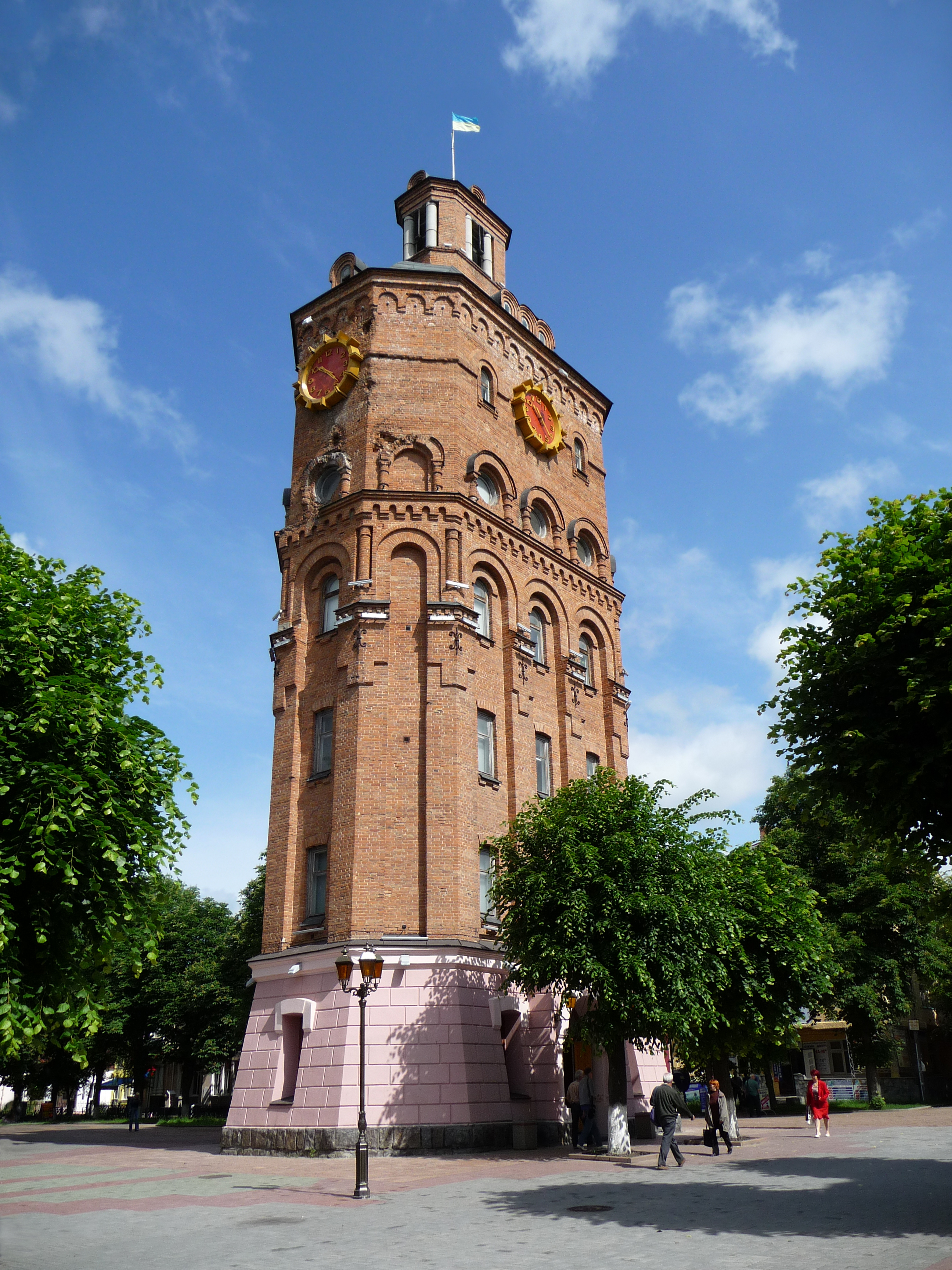 The former water tower in the center of Vinnitsa, Ukraine.